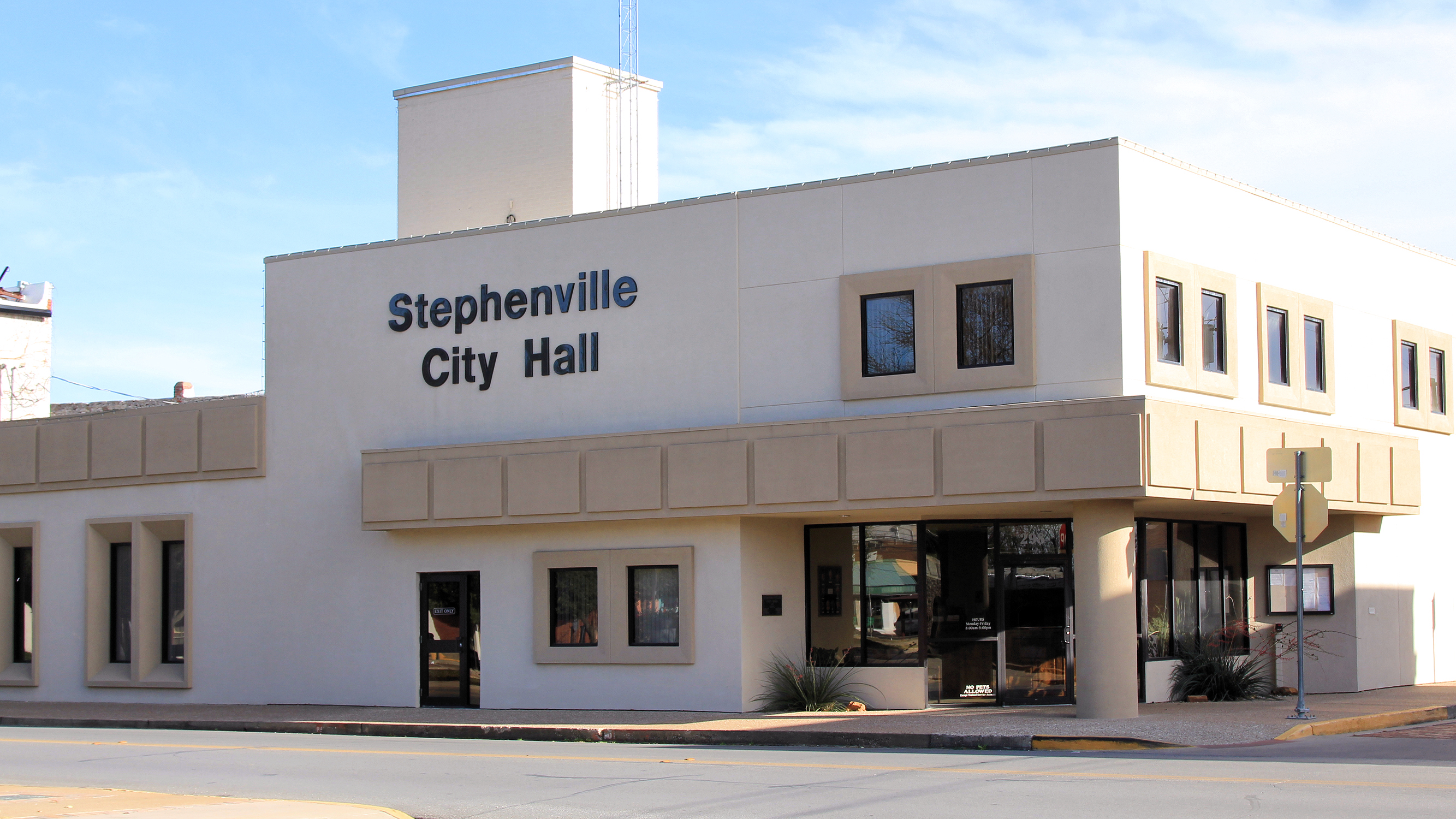 Stephenville, Texas City Hall in 2017